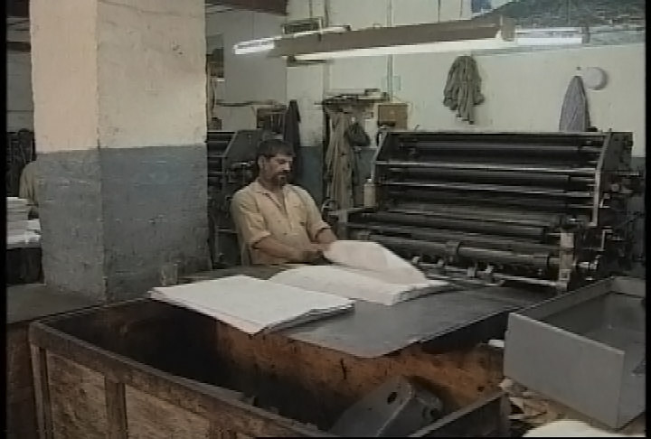 Book press in Kabul, Afghanistan, 2002